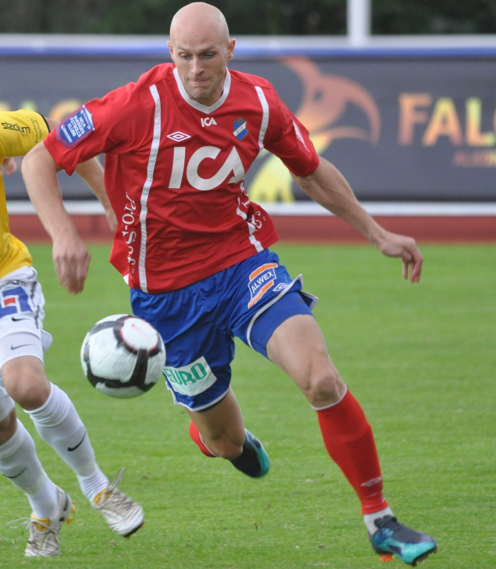 Swedish midfielder Freddy Borg attacking against Falkenberg 2010.